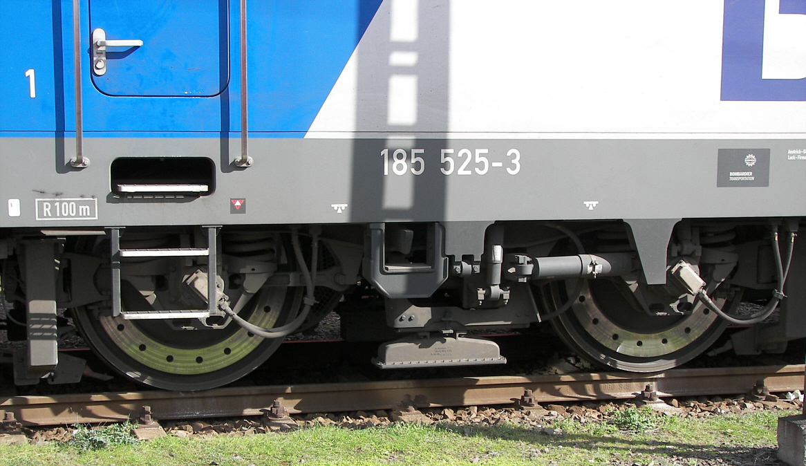 Bogie of german class 185